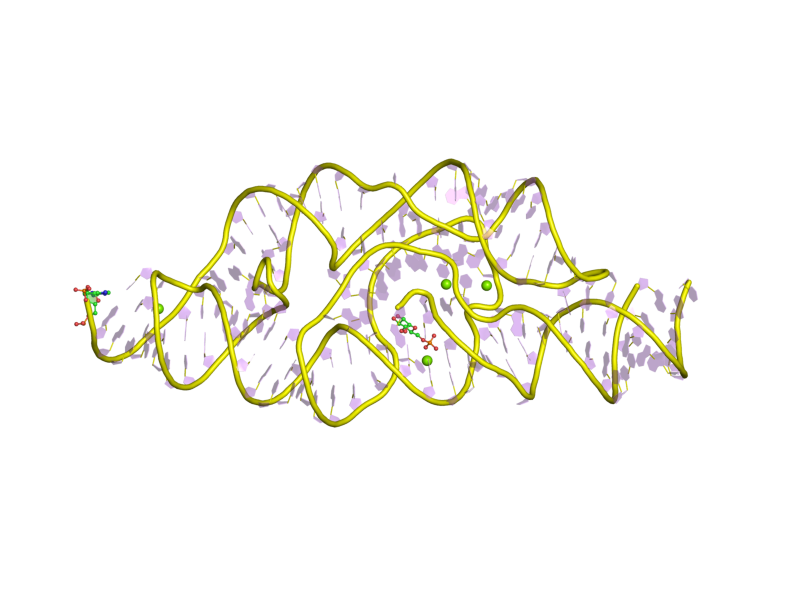 Cartoon representation of the molecular structure of protein registered with 2ho7 code.